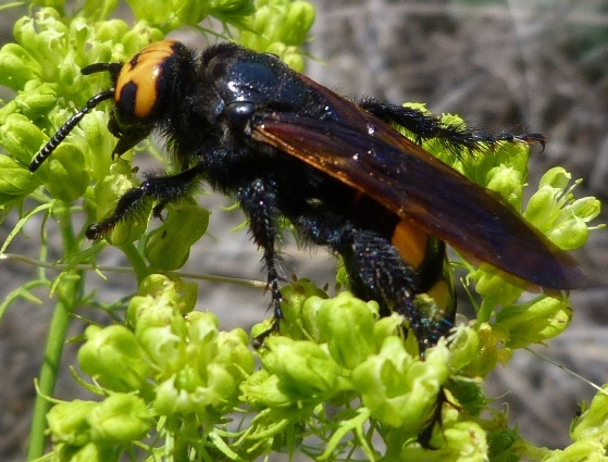 Near Tàrrega, Lleida, Catalonia.